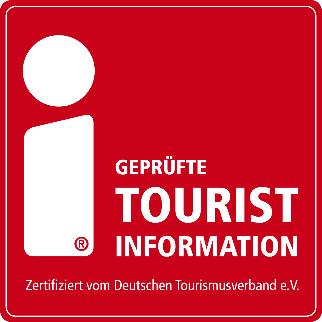 Brand: i-Marke since 2014